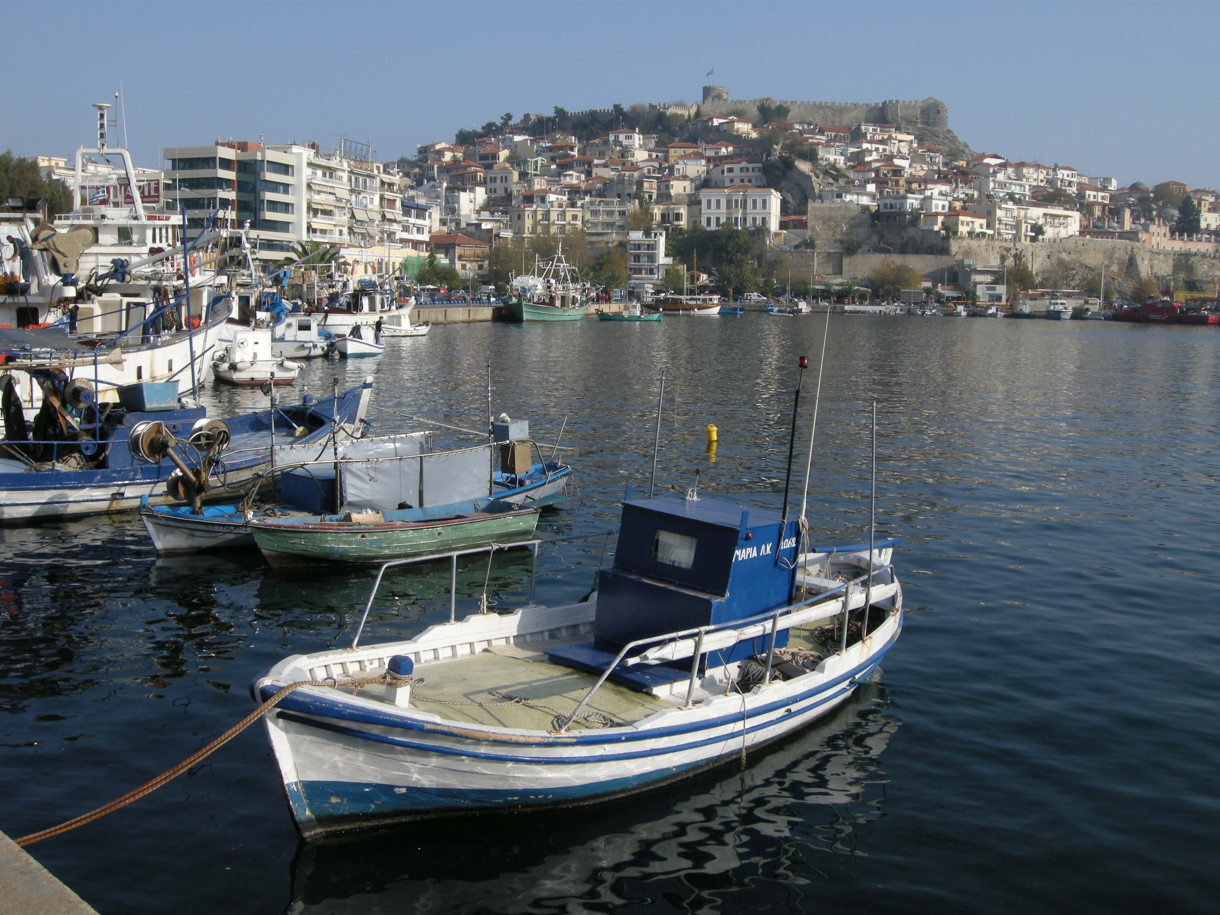 The port of Kavala, Greece.